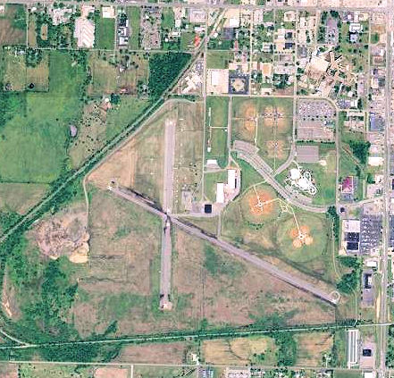 USGS digital orthophoto of Hatbox Field (formerly known as Muskogee Army Airfield), an airport in Muskogee, Oklahoma, United States